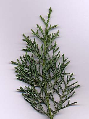 Smooth Arizona Cypress Cupressus glabra (syn. C. arizonica var. glabra) foliage - photo MPF